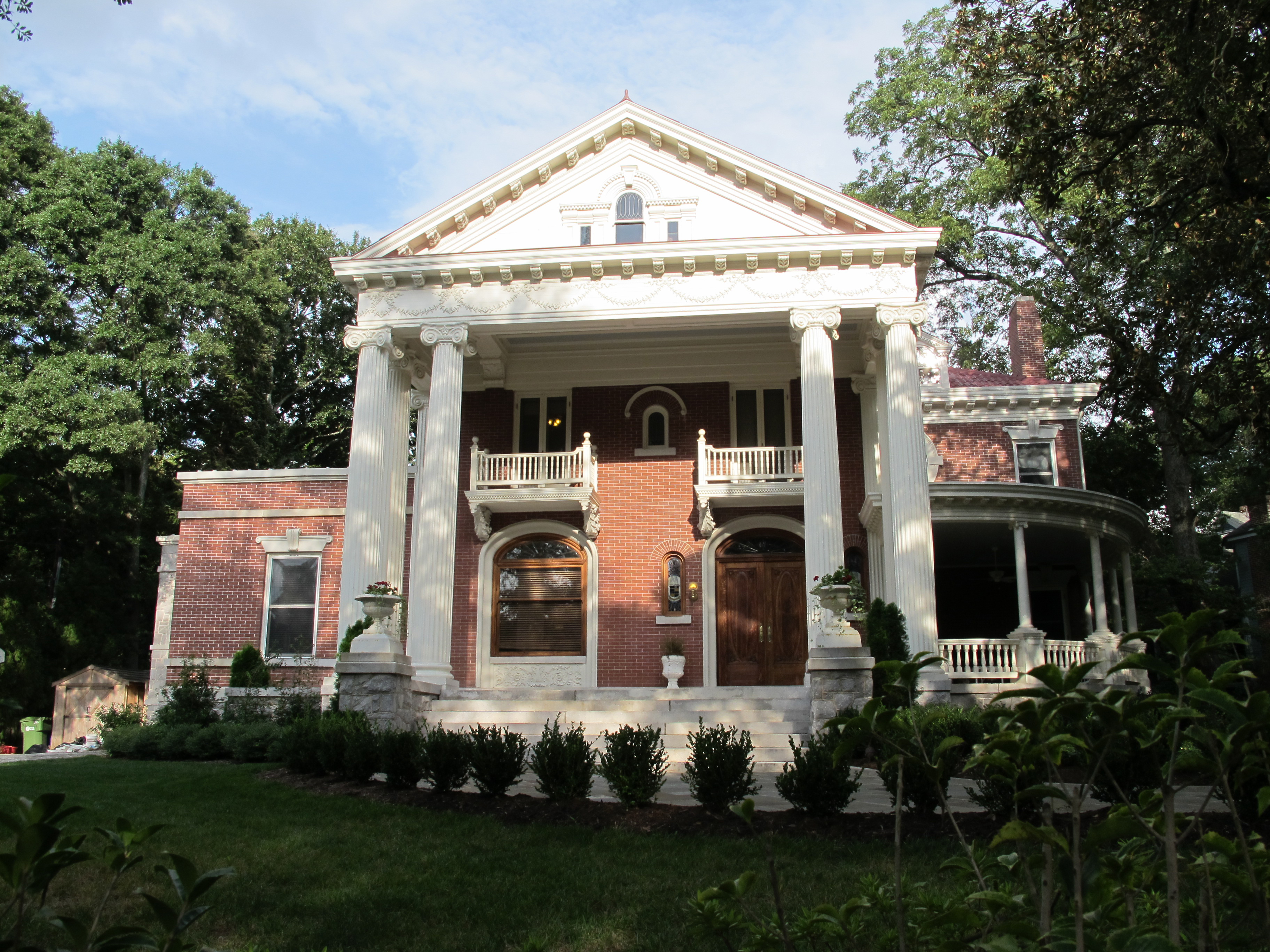 Callan Castle, former home of Asa Griggs Candler in Inman Park